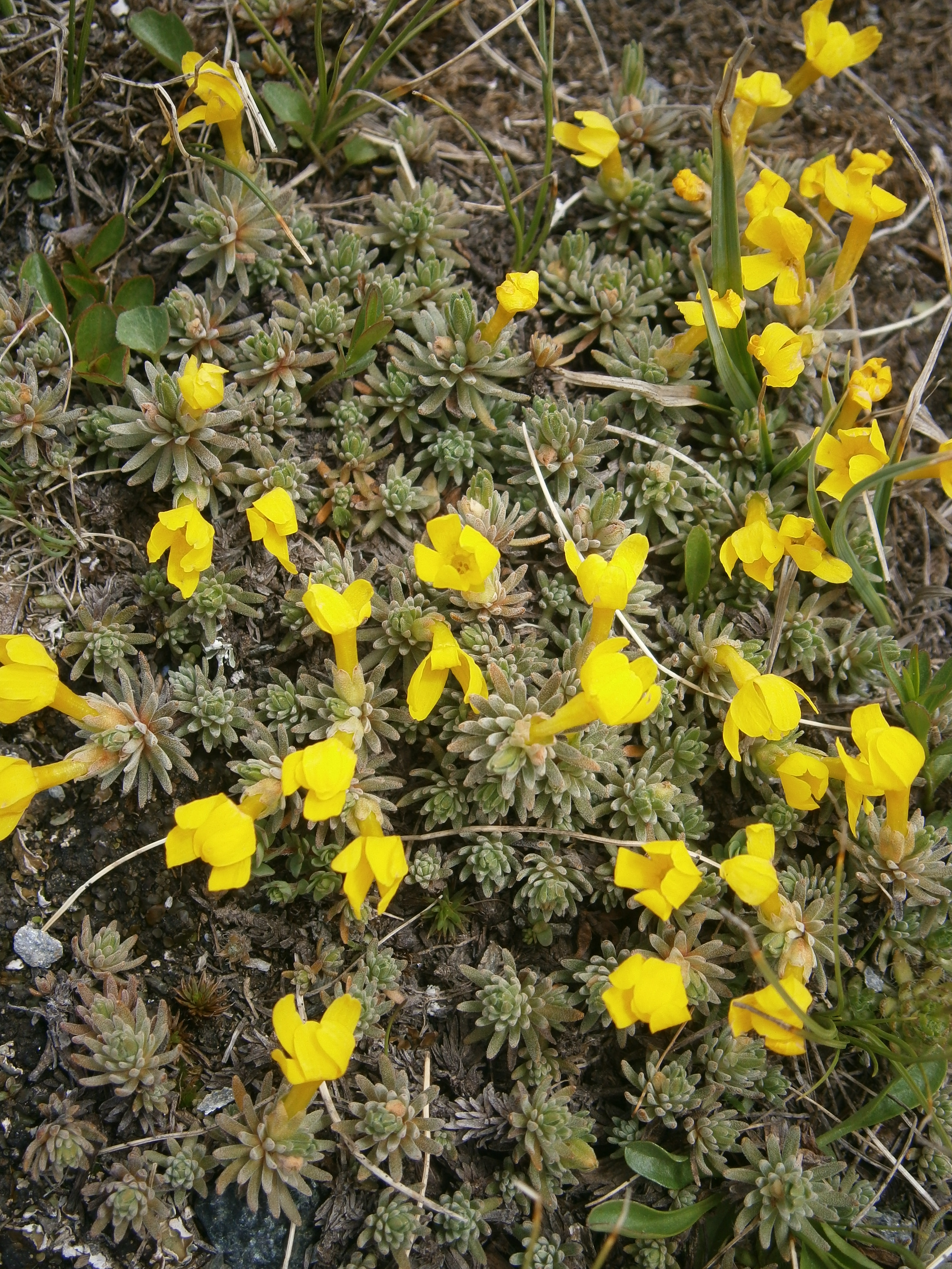 Vitaliana primuliflora